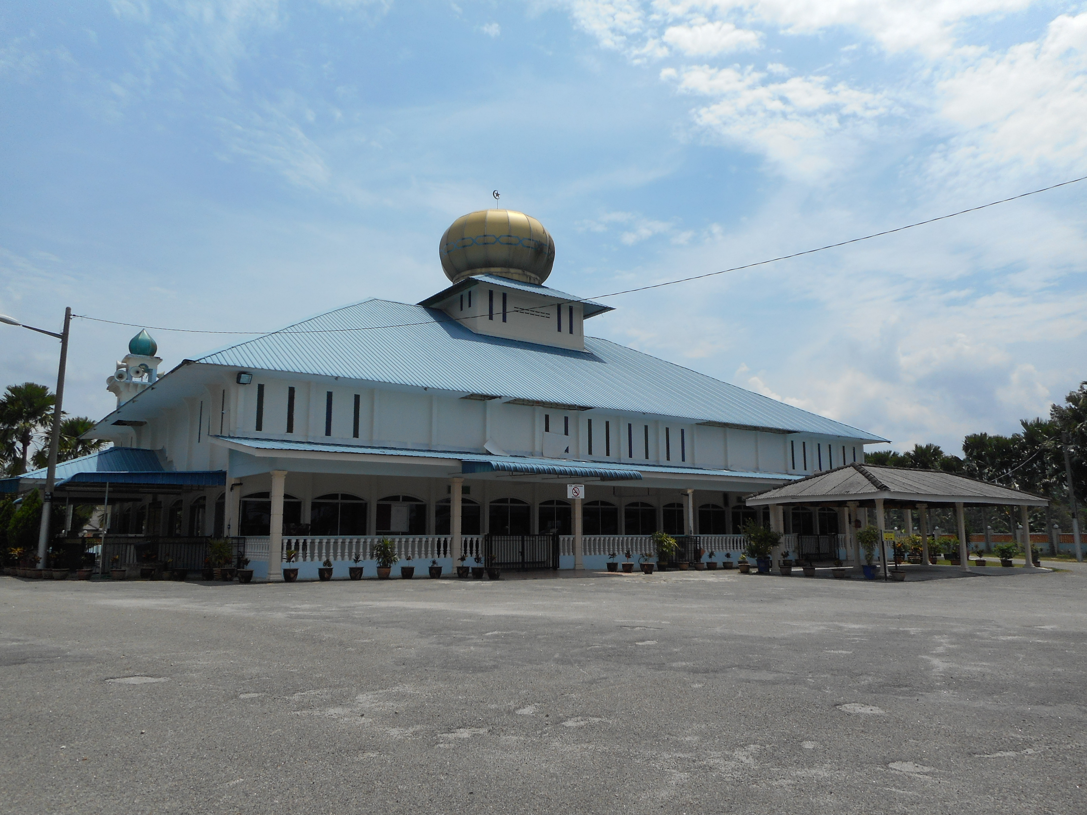 FELDA Sungai Sibol Mosque, FELDA Sungai Sibol, Kulai, Johor, Malaysia